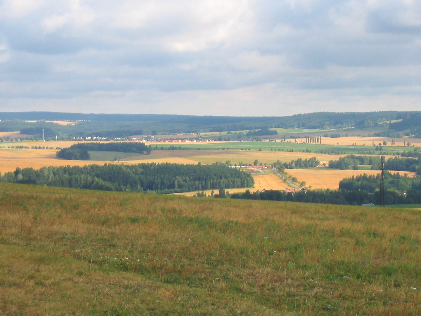 A view of the countryside near Žďár nad Sázavou (5 kilometers south-west from the city) in the Czech Republic.